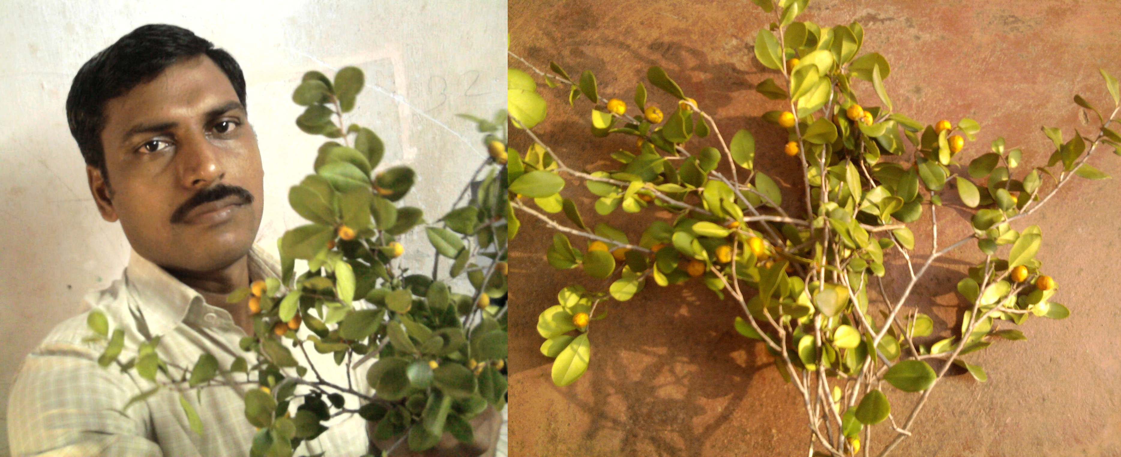 Diospyros geminata at Vinjamur, Nellore (dt), A.P. India.